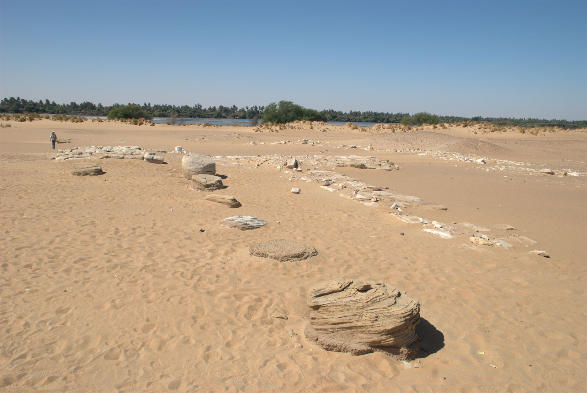 Kawa, Sudan, Amun temple